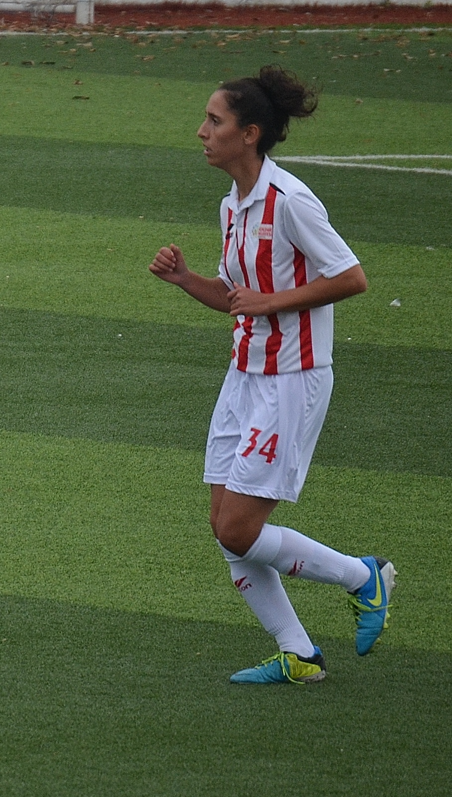 Esra Özkan for Ataşehir Belediyespor in the 2014-15 season